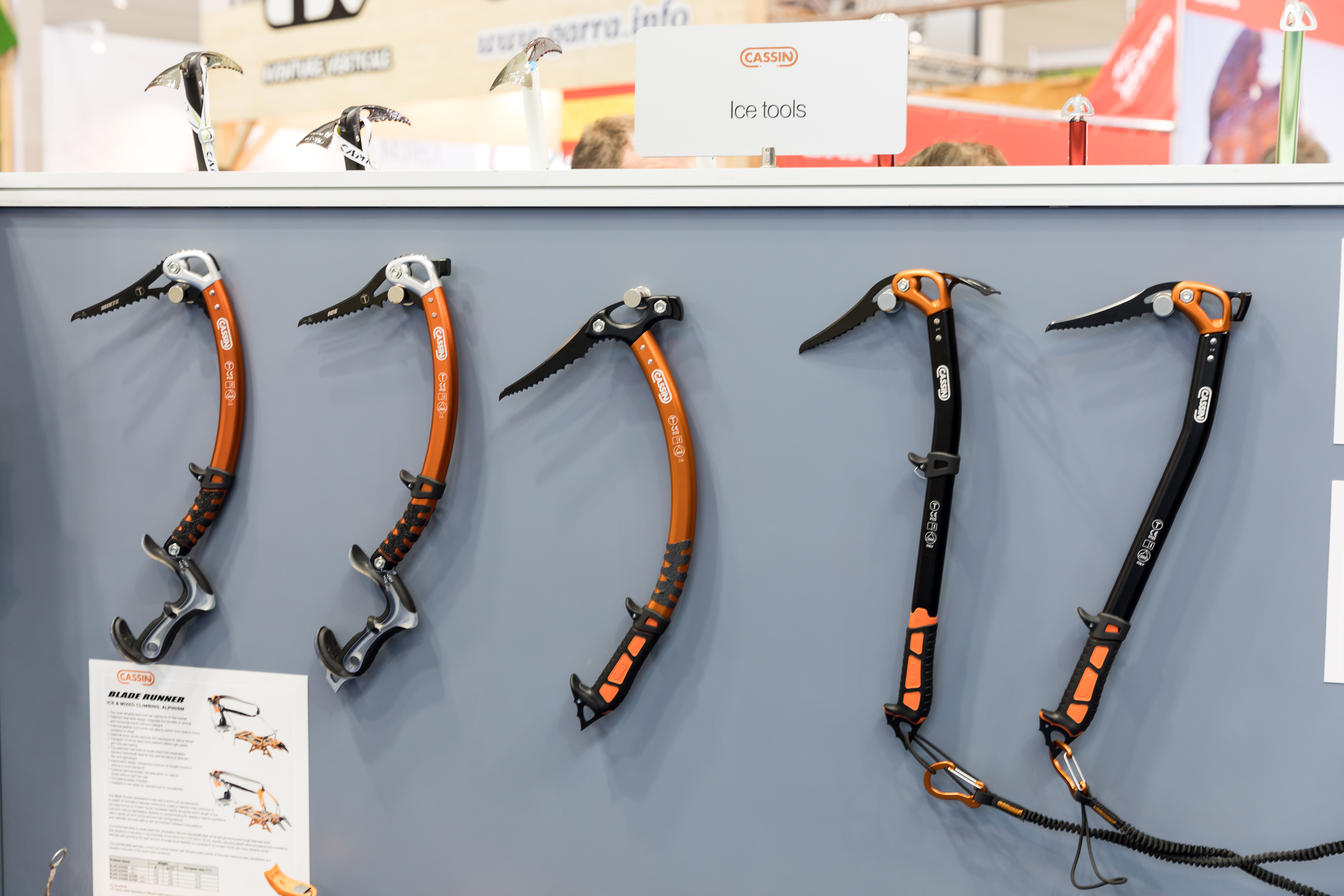 OutDoor 2018